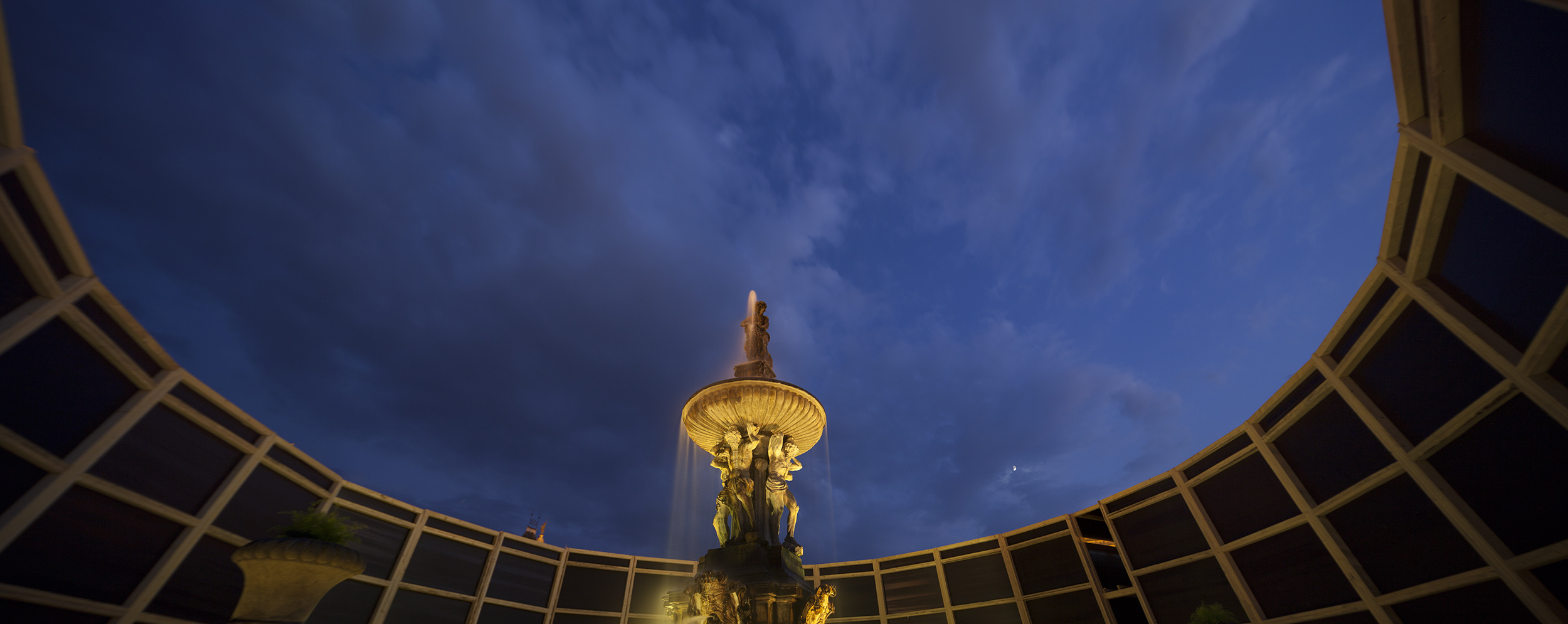 "Perception" by Jan Šépka displayed in the city of České Budějovice, South Bohemian Region, Czech Republic in 2016. The photograph was taken by the artist himself.